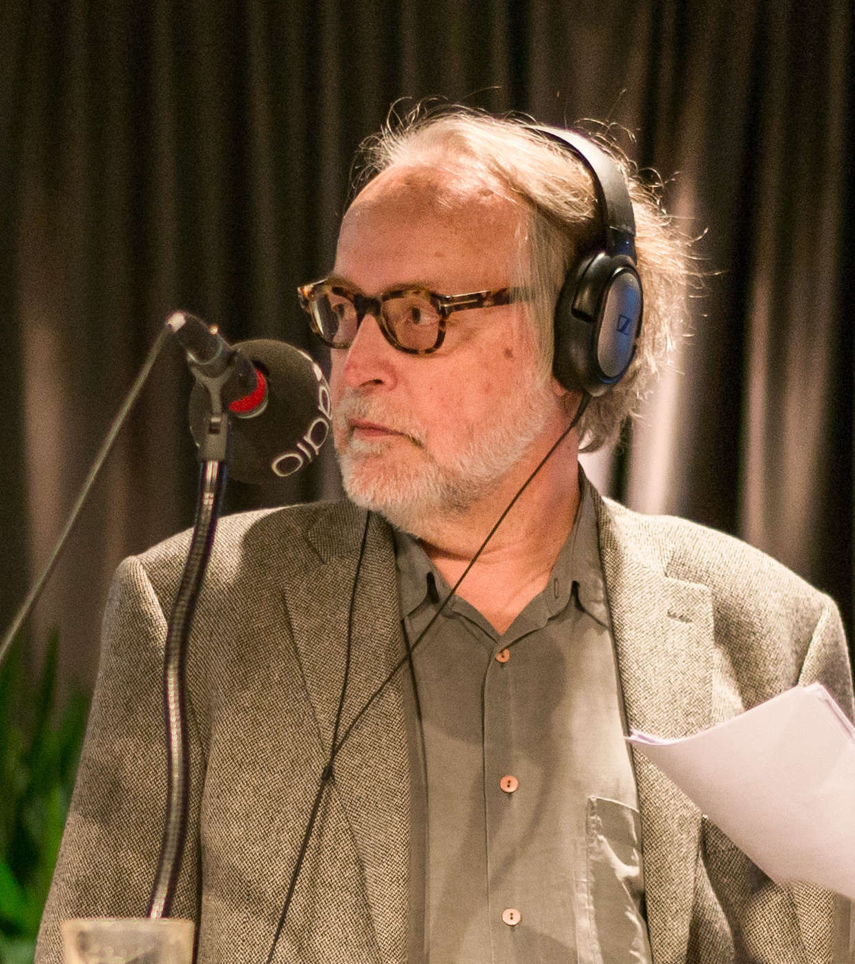 During the Nobel Day, December 10, 2016, SR P1 broadcast the Science Radio and Culture Radio directly from Kulturhuset in Stockholm.